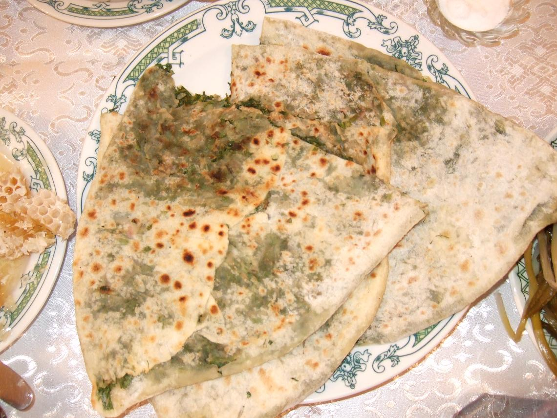 Jengyalov hats